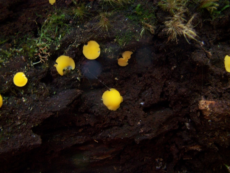 Discinella terrestris on the Growling Swallet track in the Upper Florentine Valley, photo taken February 2012.